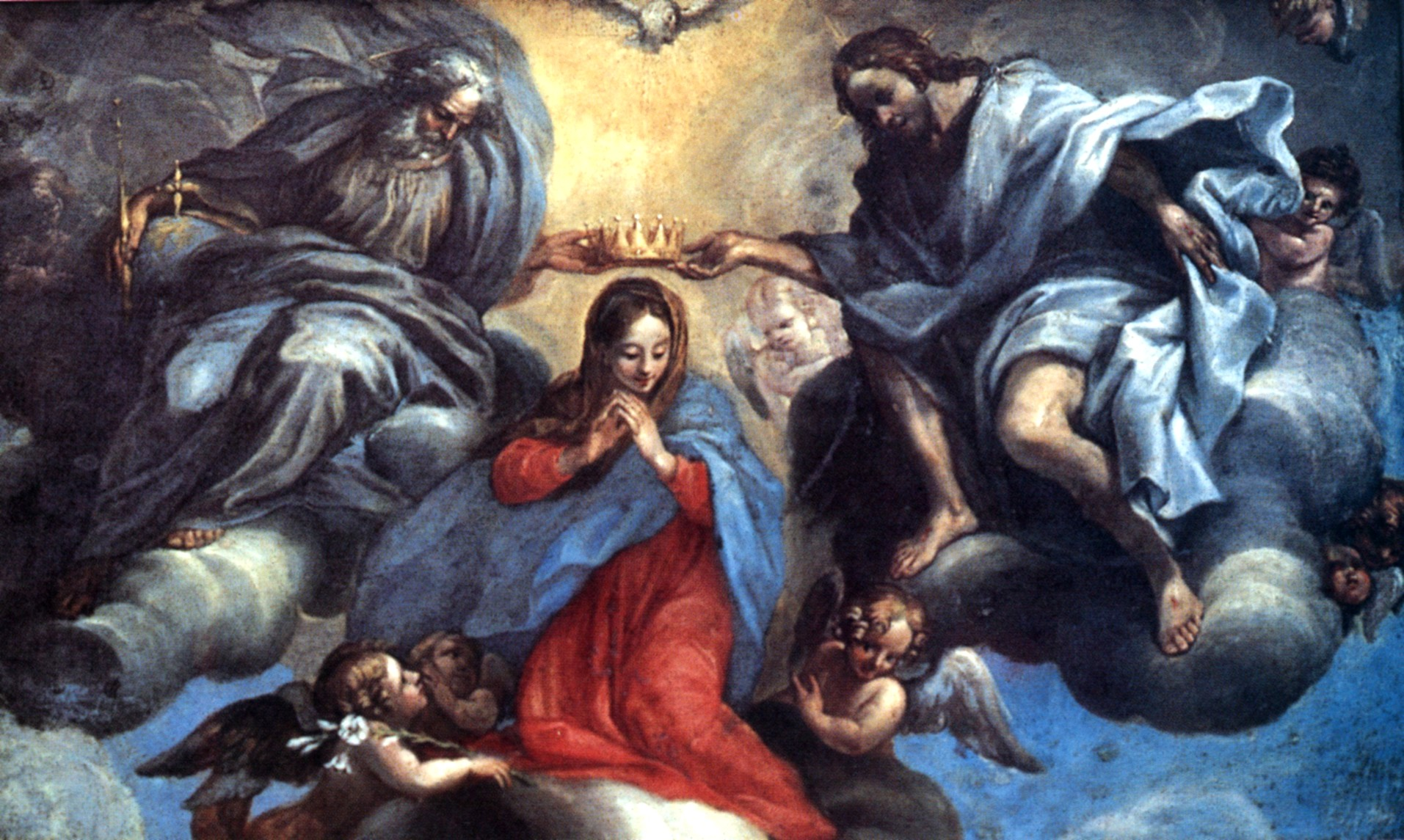 Cathedral-Basilica of Salvador - Panel on the Sacristy chest, showing the coronation of the Virgin Mary.